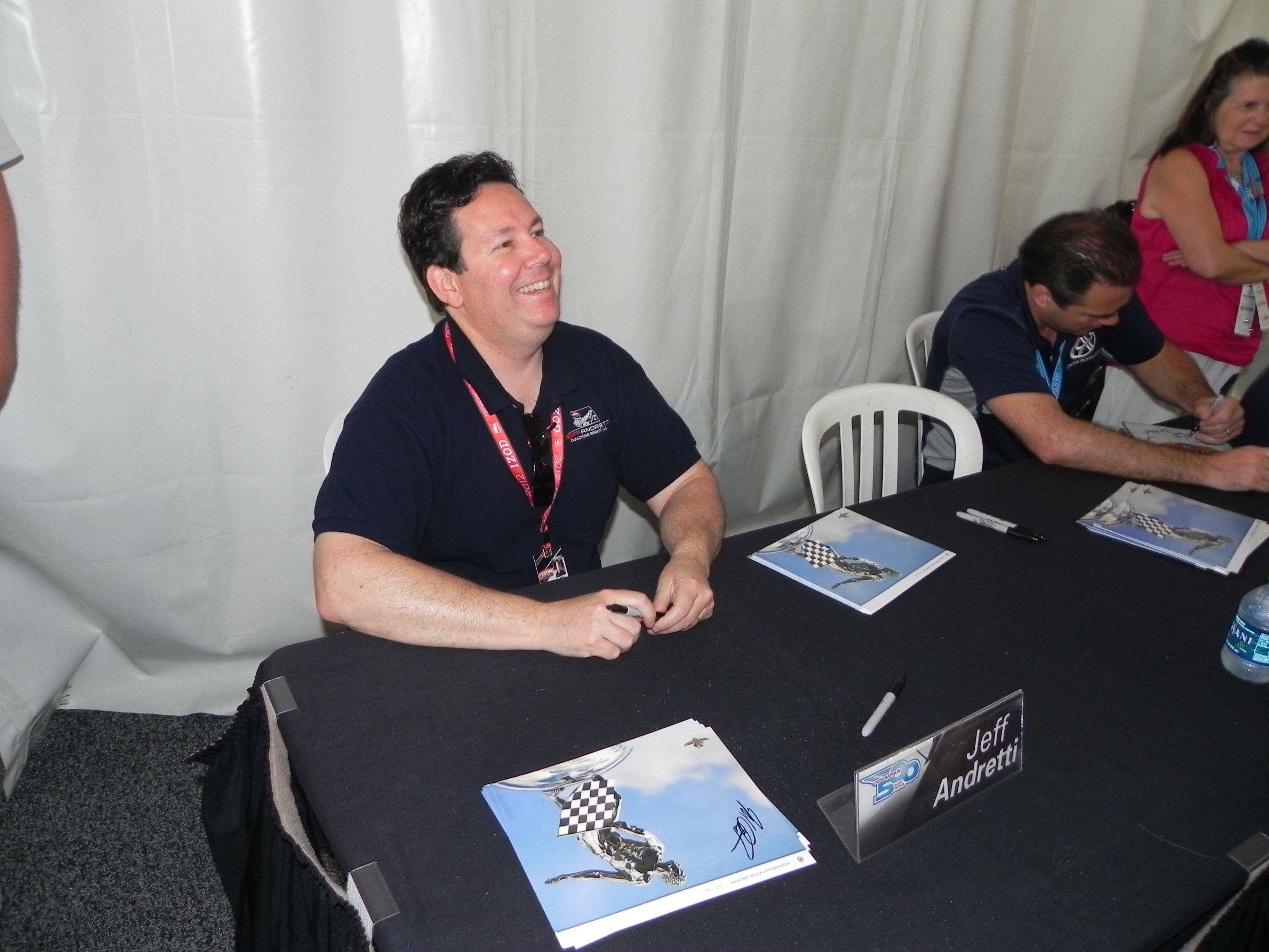 Indy driver Jeff Andretti at the 2012 Indianapolis 500 Legends Day